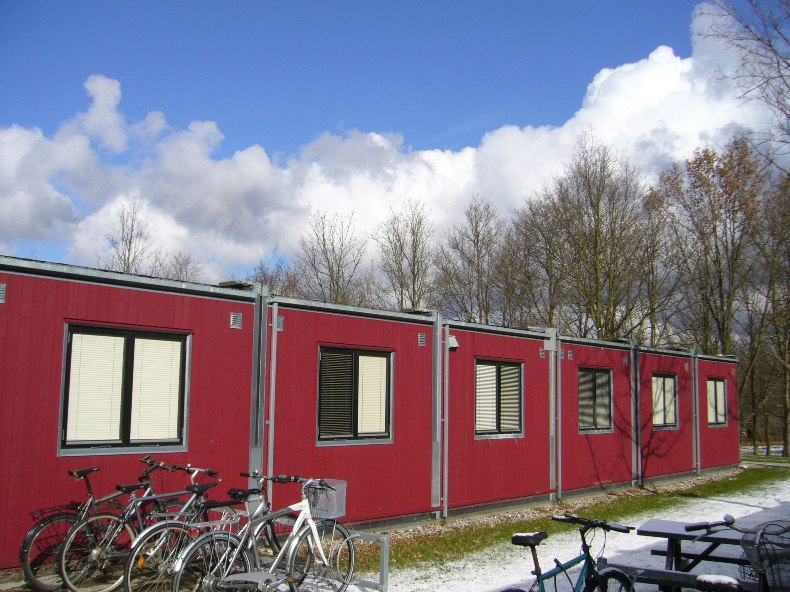 A photo taken in Spring 2008 of one of the "Containers" at DTU Campus Village.